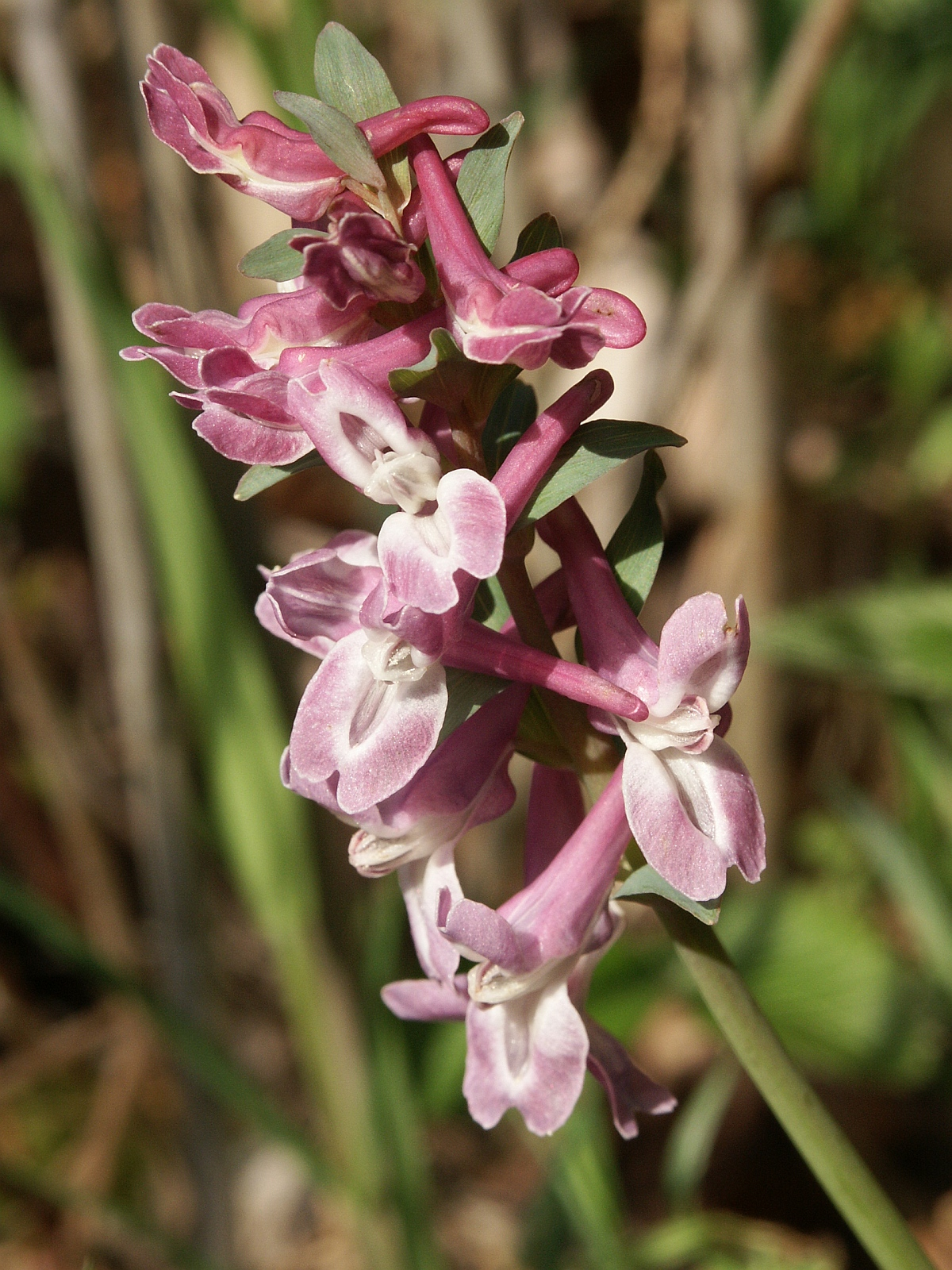 Corydalis cava, Hohenloher Land, Germany